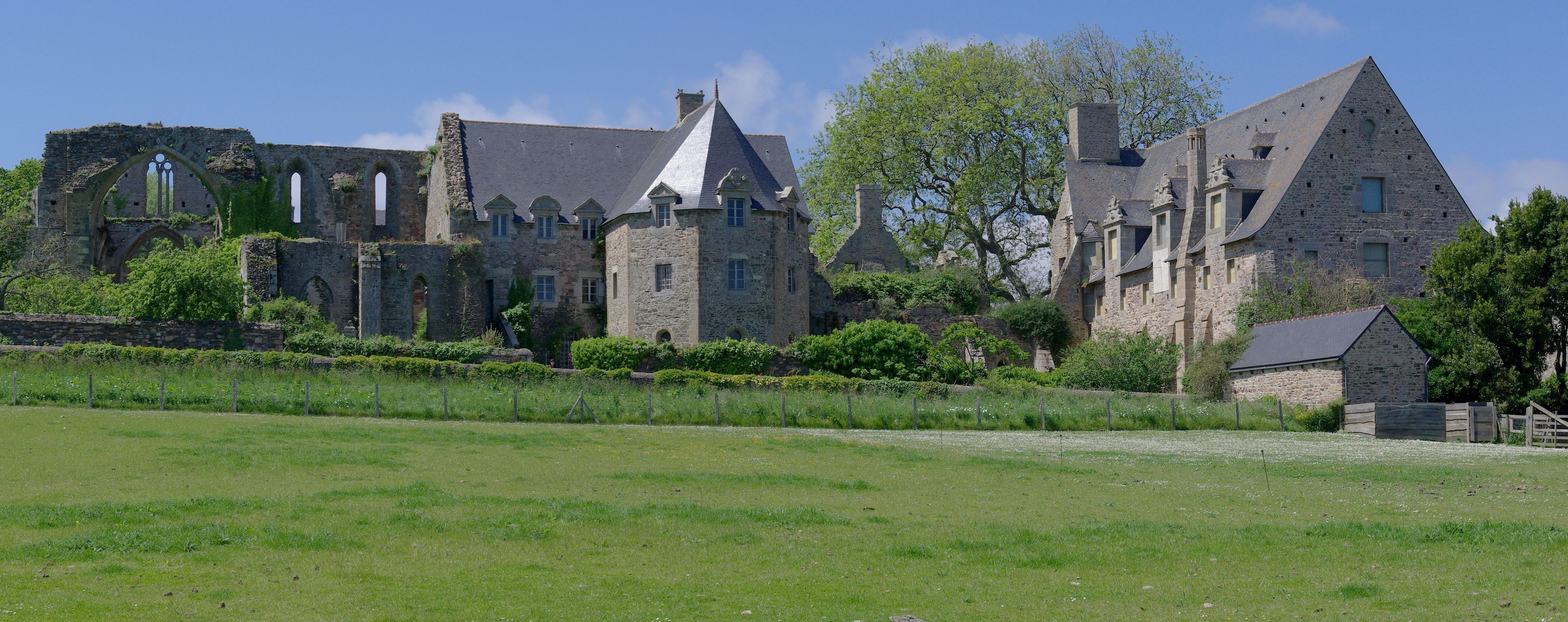 The Beauport Abbey (13th century): view of the buildings from the coastal path, east side. Located in Kérity, in the municipality of Paimpol (Côtes-d’Armor, France).